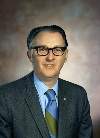 Representative John D. Jones, 1971